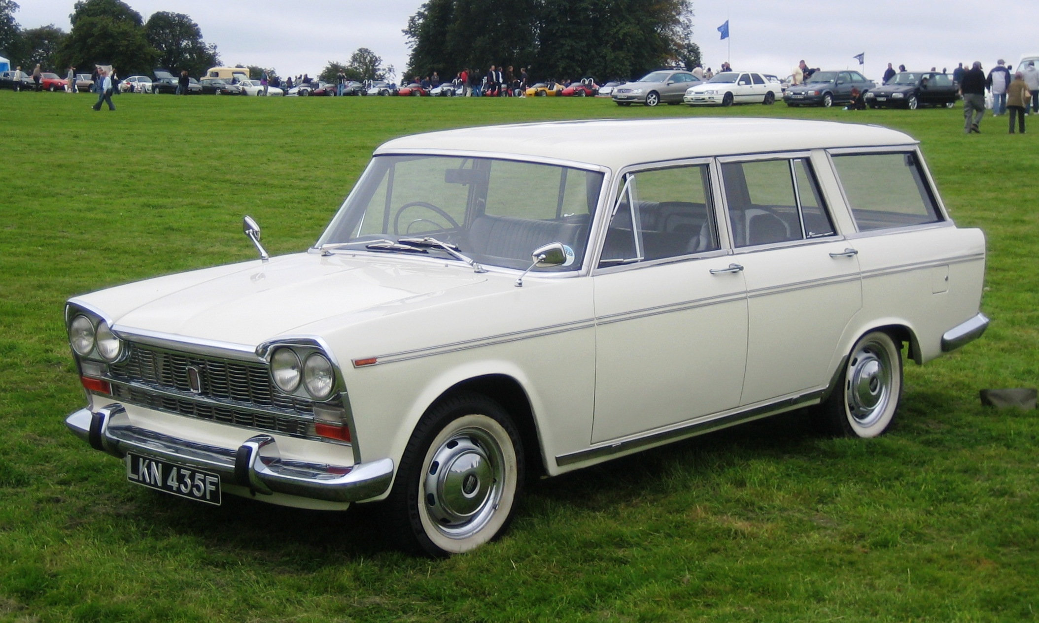 Fiat 2300 Familiare beautifully maintained and / or restored at Knebworth Class Car Show